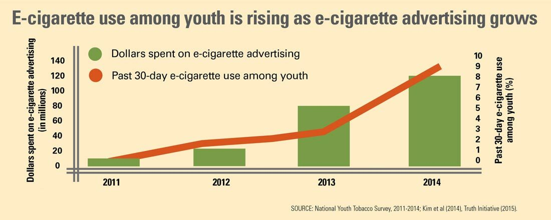 From the United States electronic cigarette marketing report